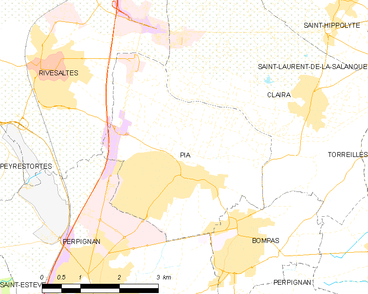 Map of French municipality